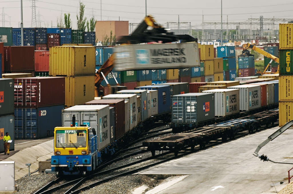 Coslada Dry Port This photograph can be used for publications, including this copyright statement: “©PromoMadrid, author Max Alexander”. Esta fotografía puede usarse en publicaciones, incluyendo la declaración “©PromoMadrid, autor Max Alexander”.